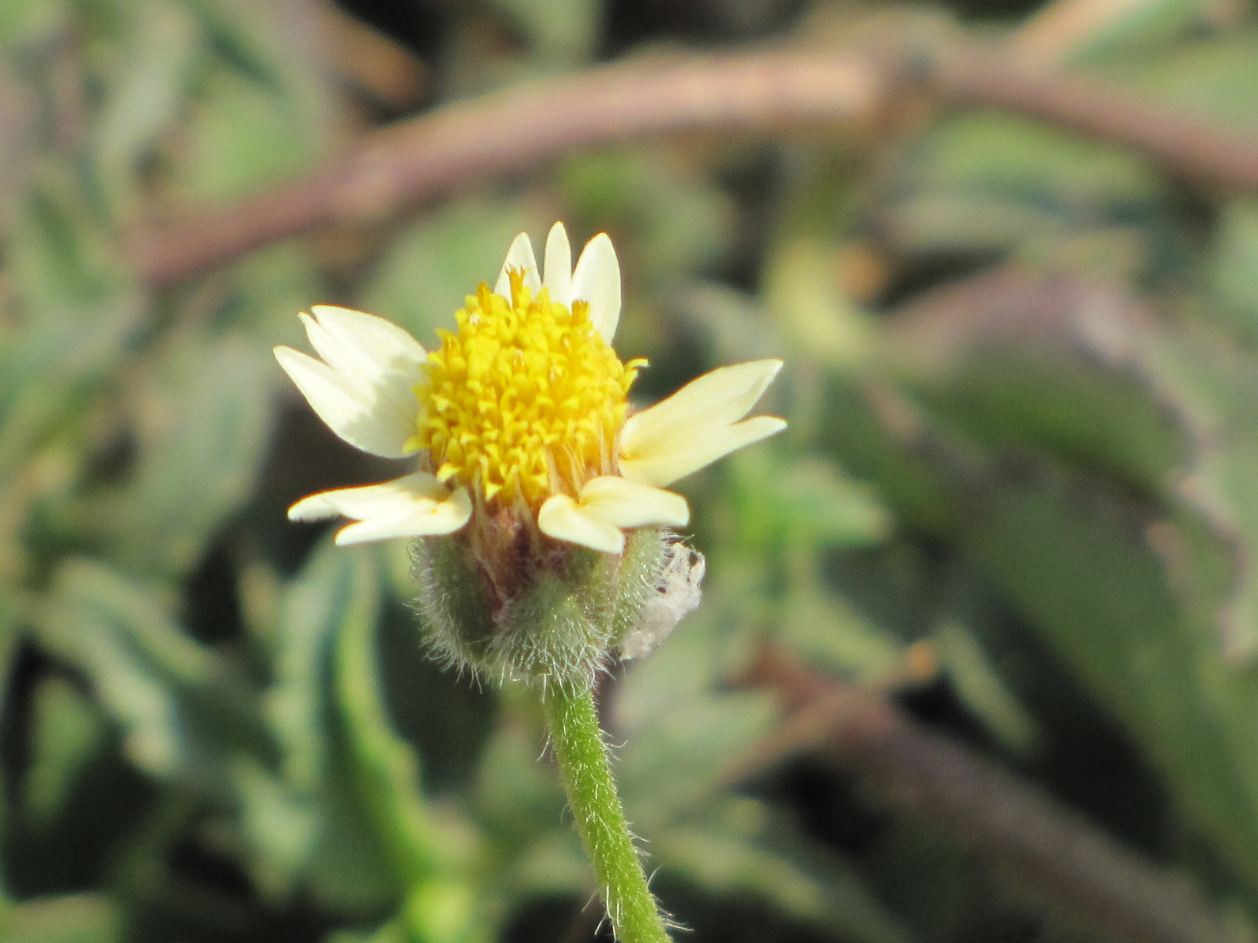 Photo of Kambarmodi (Marathi name) i.e. Tridax procumbens